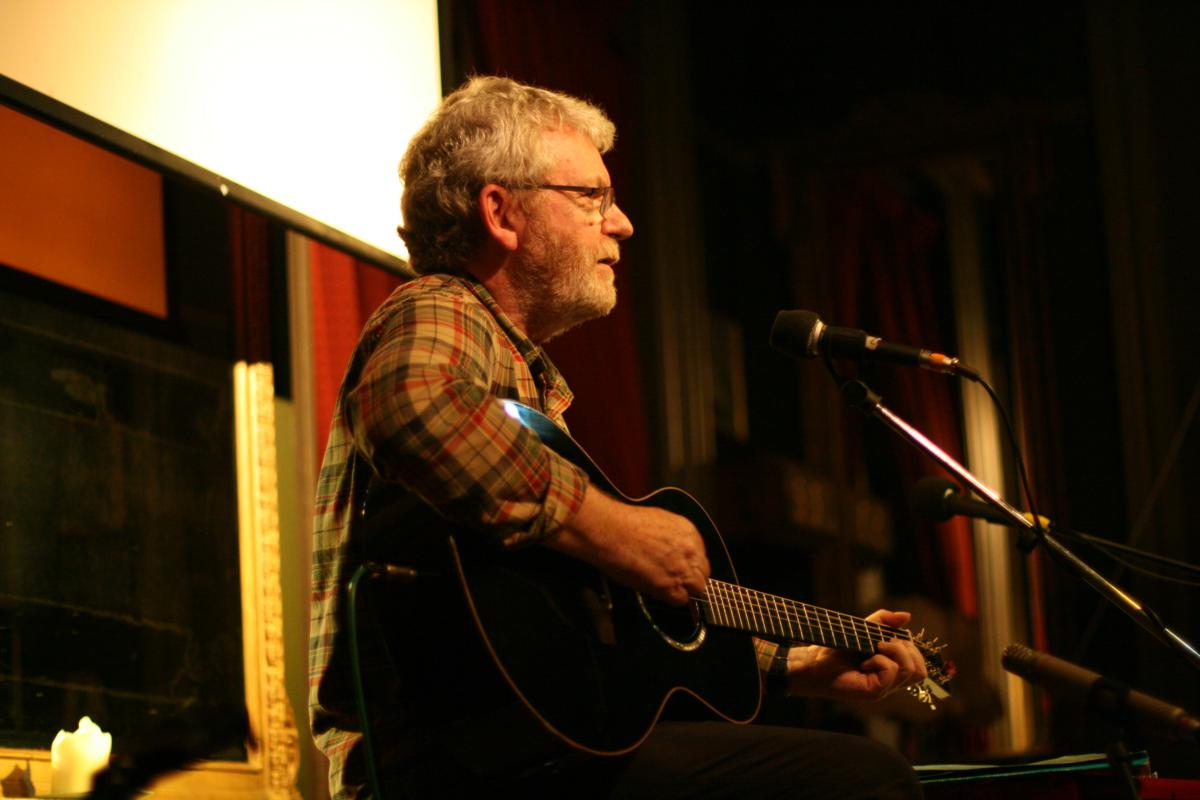 Singer Pete Atkin performing in October 2012